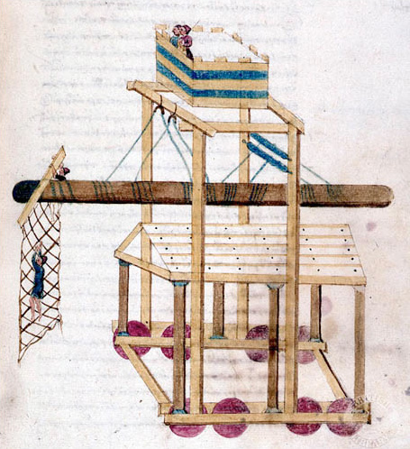 Drawing of a siege tower from a 16th c. Italian copy of an 11th c. Greek manuscript Hero of Byzantium's Poliorketika.